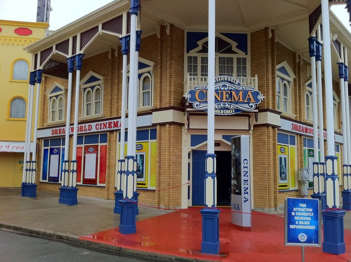 The Dreamworld Cinema in the final stages of completion after its transformation from the IMAX Theatre.